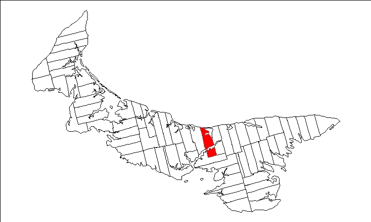 Public domain map of Prince Edward Island created by User:Plasma east with data courtesy of Geogratis, modified to show townships. Released under GFDL (self).